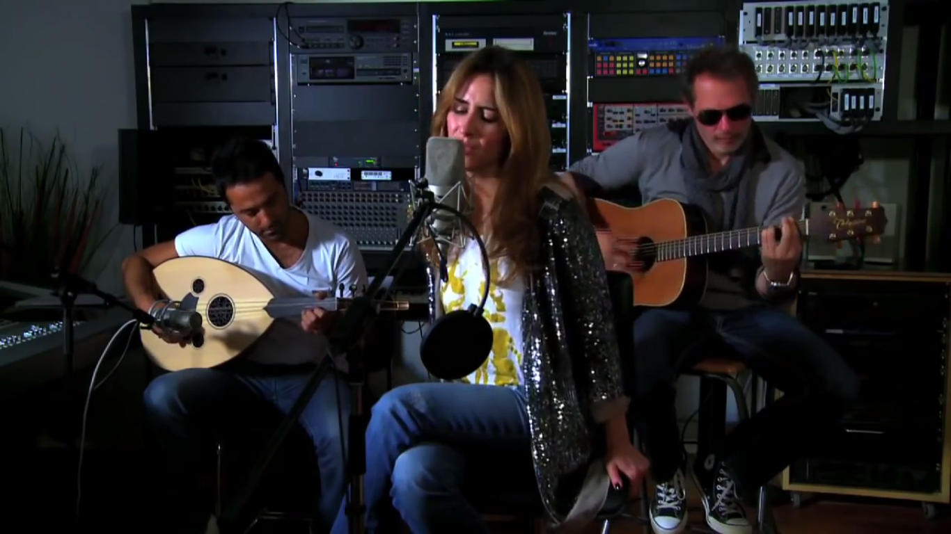 Turkish singer Aynur Aydın performing "Sakın Ha" in a studio.